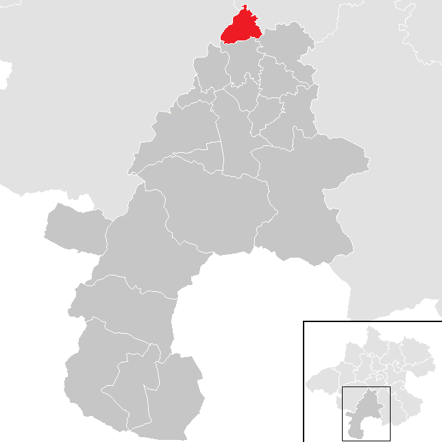 district Gmunden